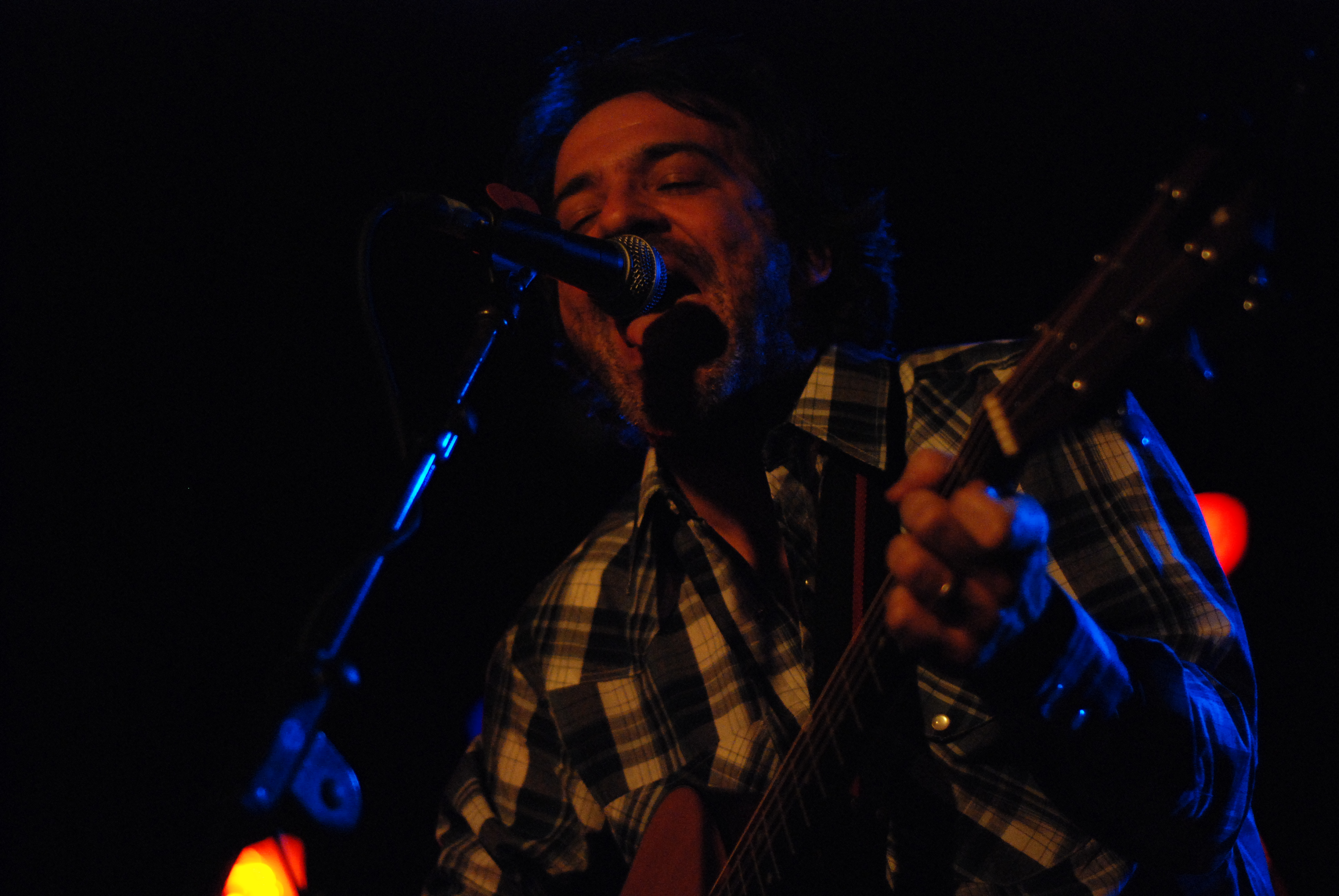 Pernice Brothers @ Mercury Lounge